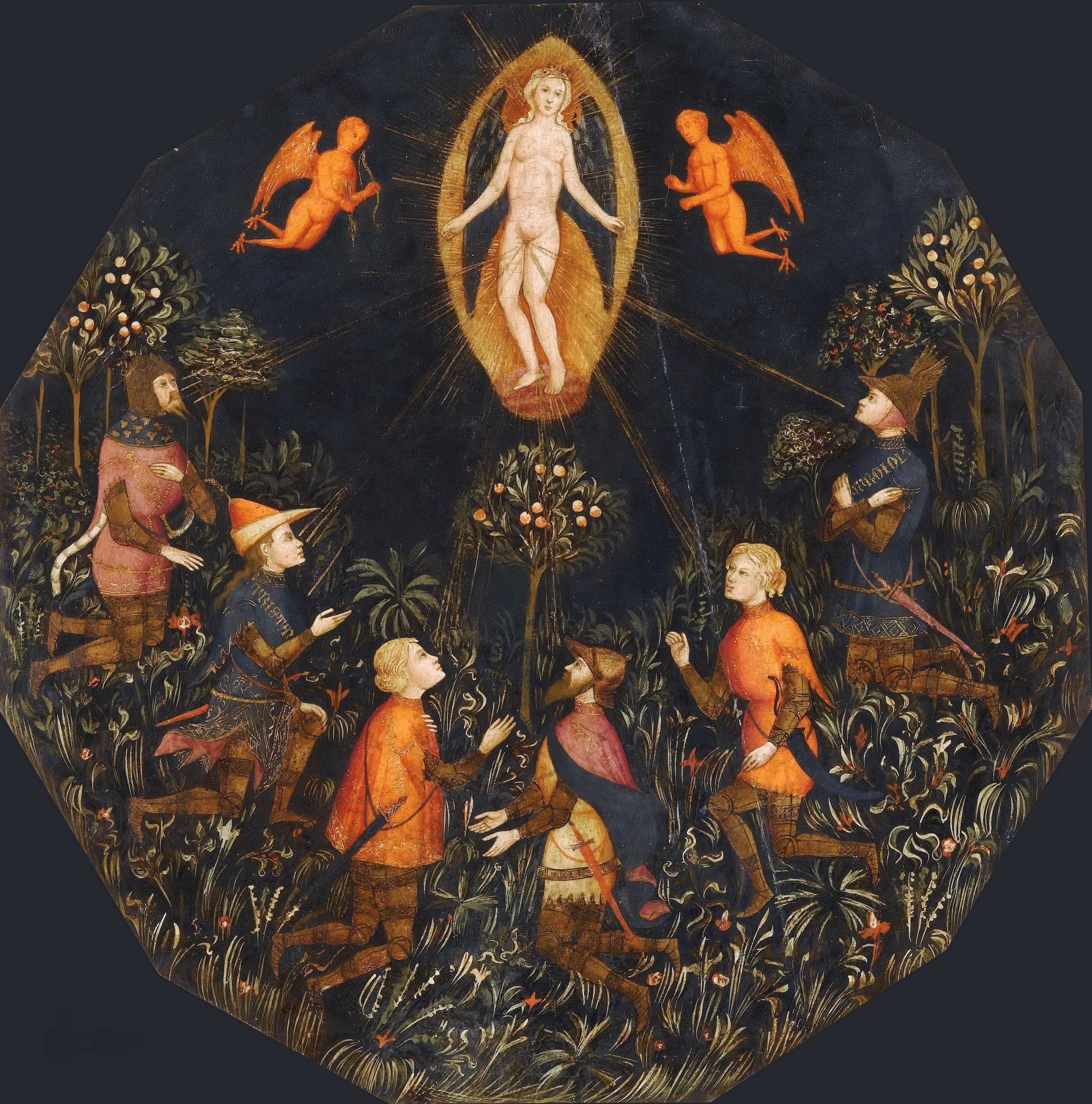 Master Taking of Tarento. The triumph of Venus, worshipped by six legendary lovers (Achilles, Tristan, Lancelot, Samson, Paris and Troilus), first half 15th."Desco da parto - support for giving birth. Diameter: 51 cm R.F.2089 Louvre, Departement des Peintures, Paris, France